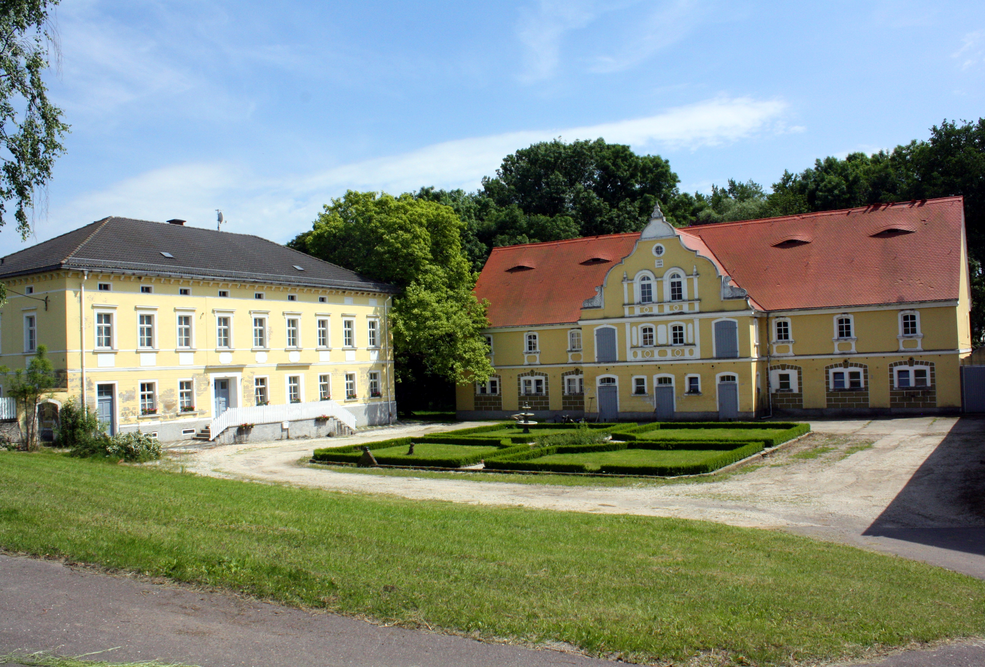 Villa in Göldschen, municipality Altkirchen near Altenburg/Thuringia in Germany.